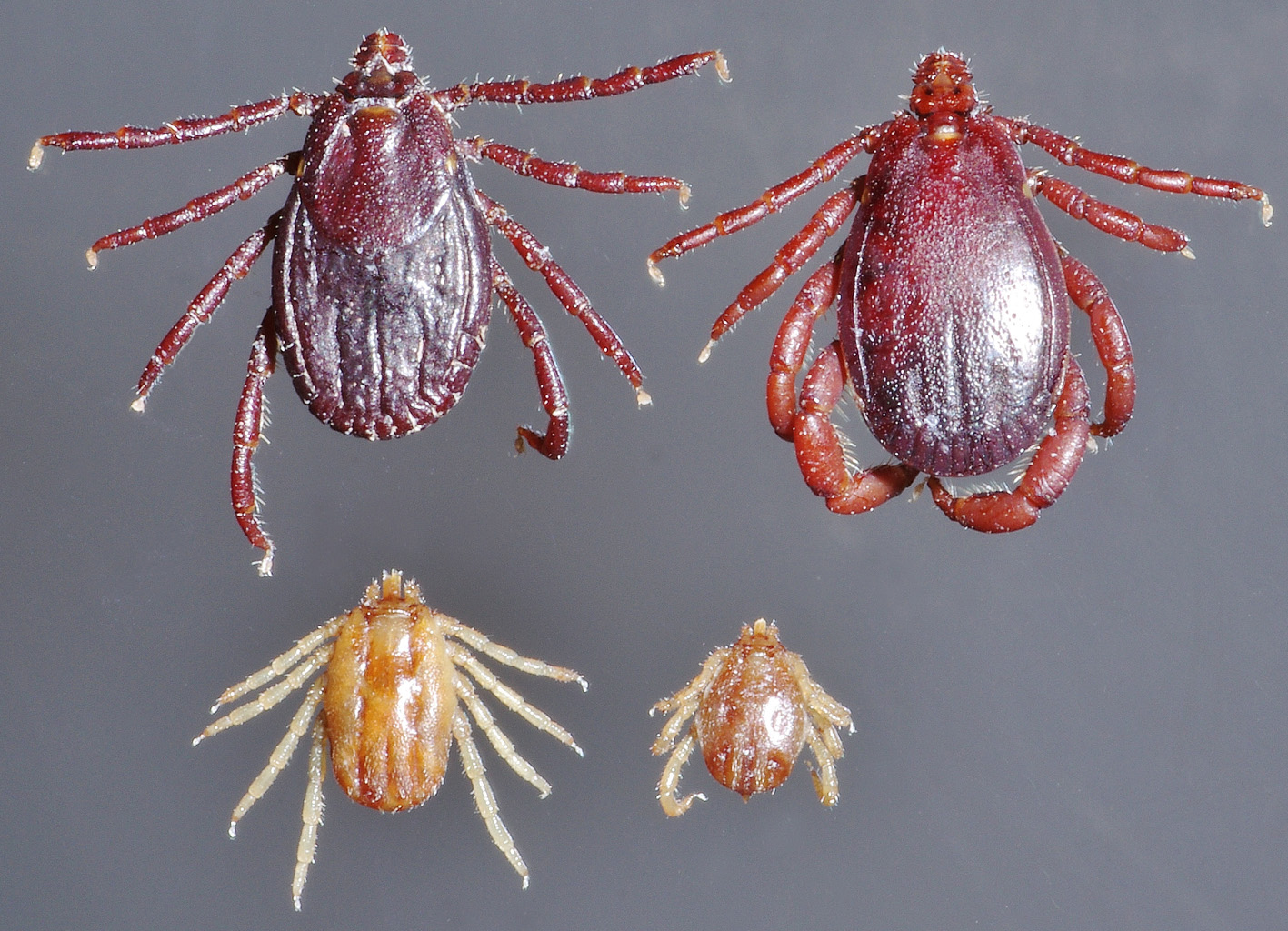 Rhipicephalus appendiculatus female and male above, Rhipicephalus (Boophilus) microplus female and male below to show differences in general appearance that may be found within a single genus (a single photograph with identical scale throughout).